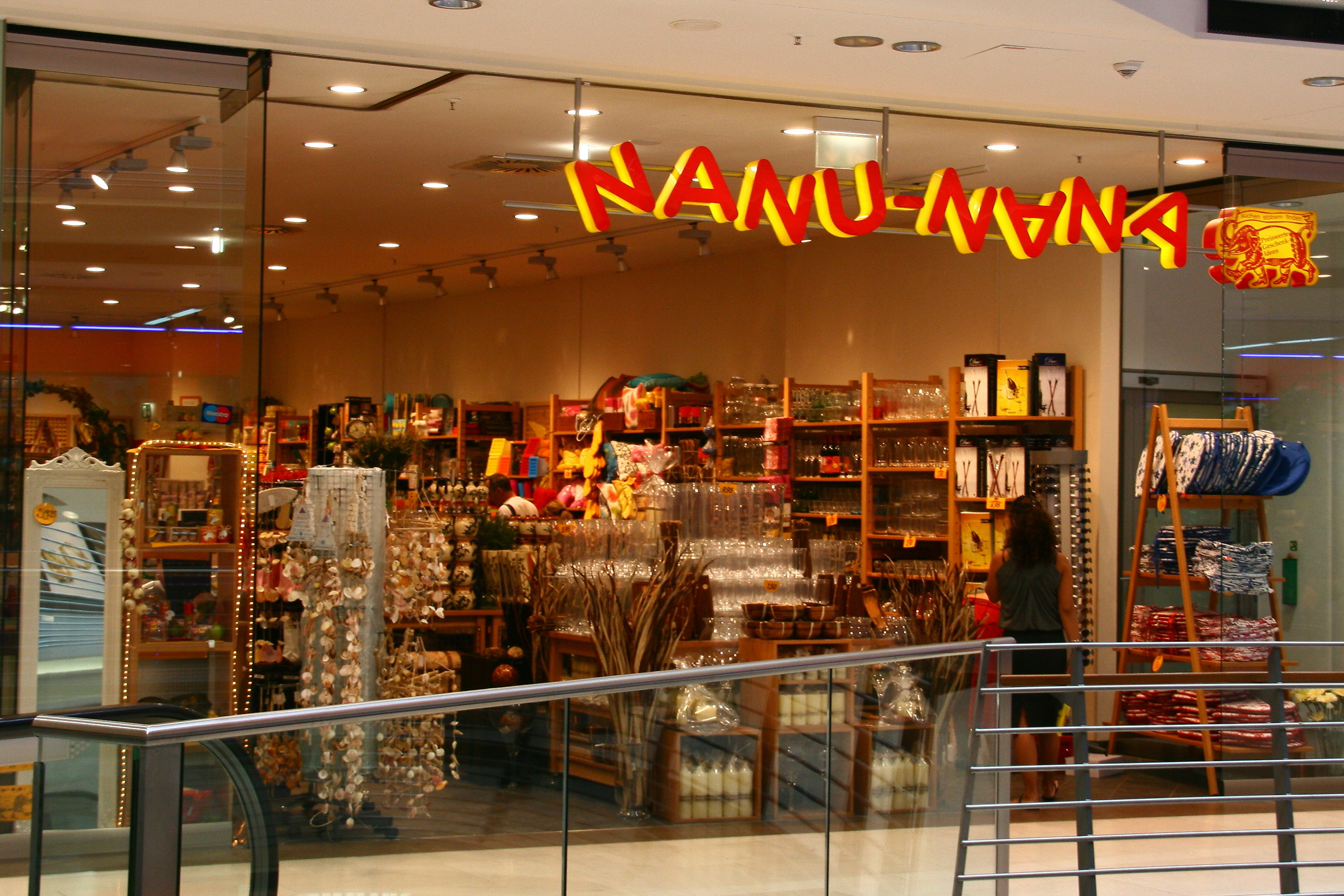 The Nanu Nana Gift shop in the Königsbaupassage Stuttgart